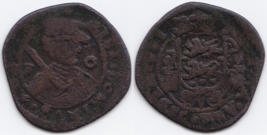 Coin oord (double duit), 1644-1649 - Netherlands, province of Friesland (Frisia). Copper, diameter 25x26.9 mm, weight 3.34 g 23.5 mm.